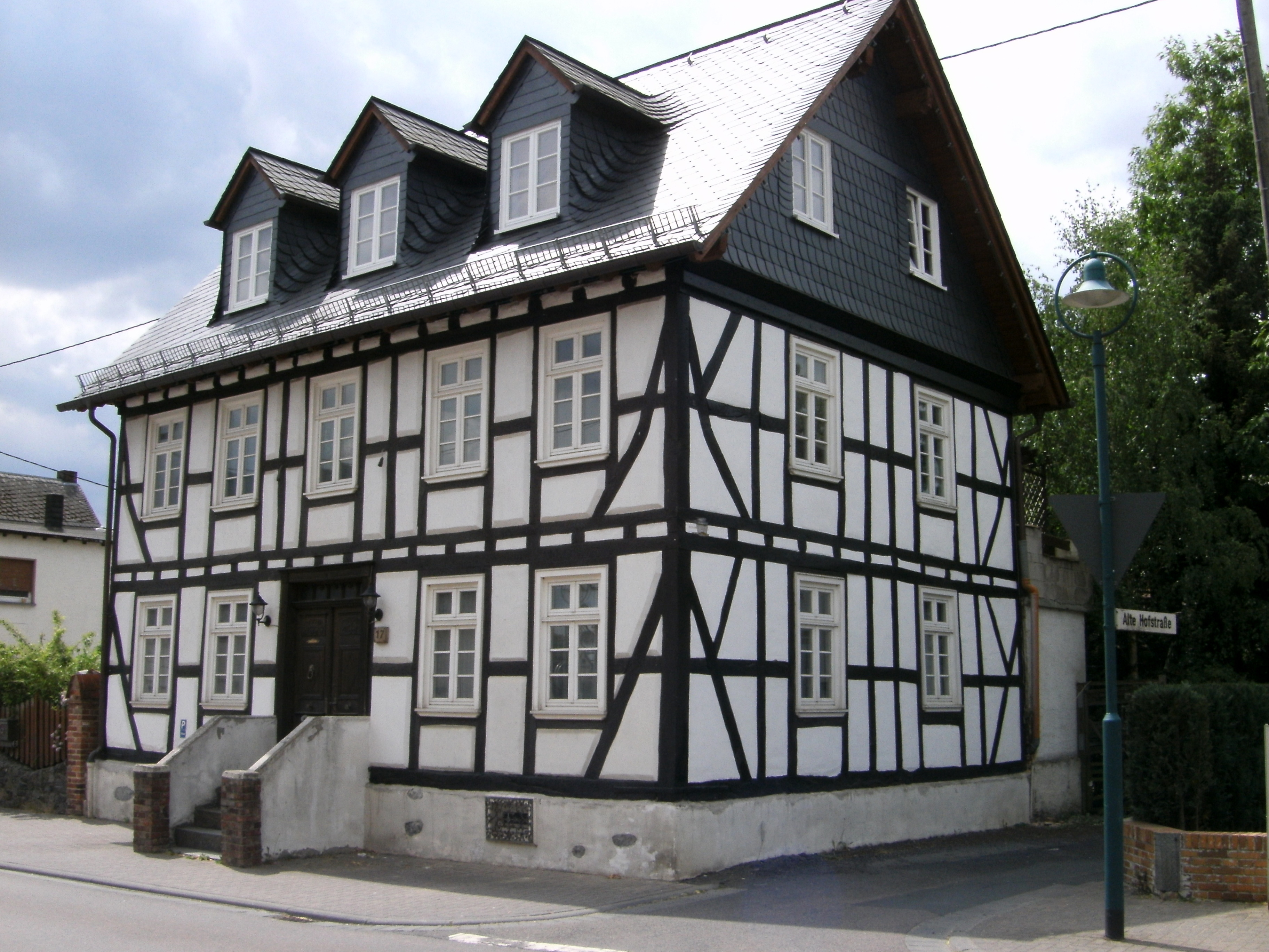 Dwelling House Langstrasse 17 in Hadamar-Steinbach, Germany